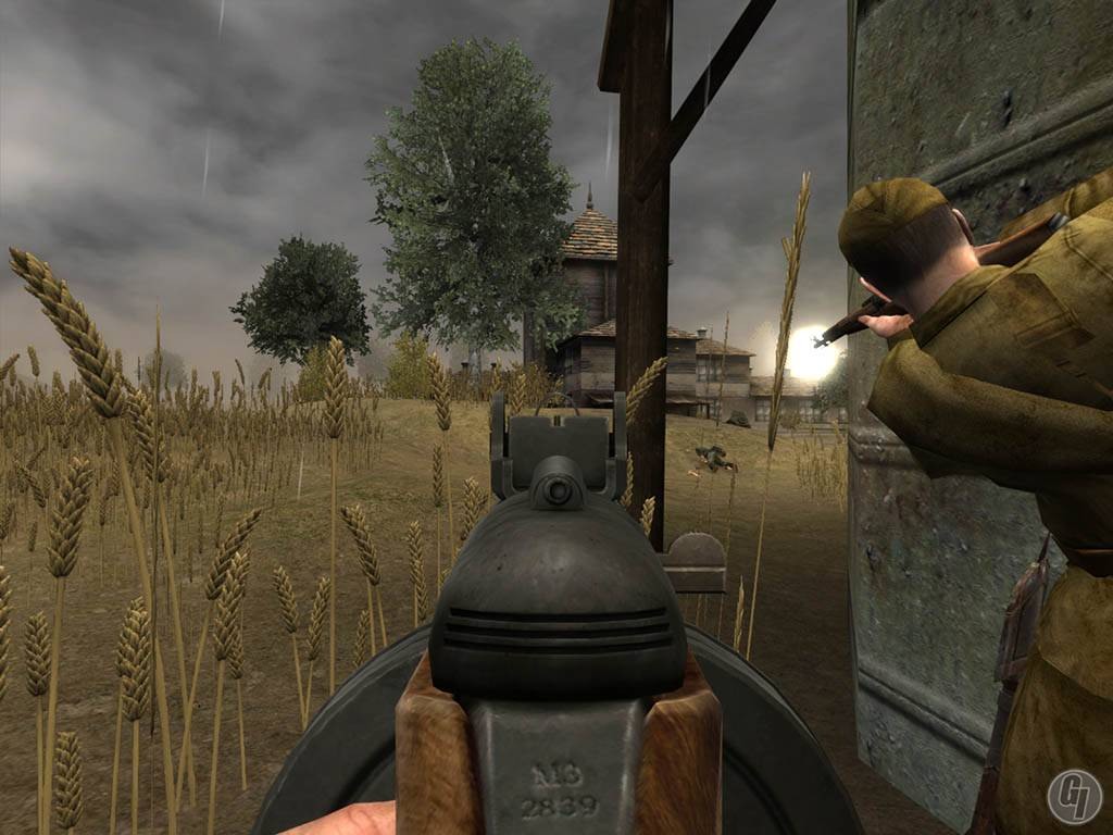 Red Orchestra action scene